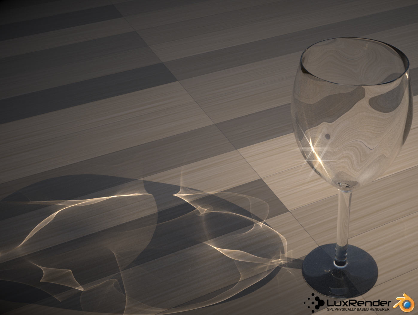 A CGI image of a wine glass with light shining through it, showing the phenomena known as caustics. Rendered with Bi-Directional Path tracing in LuxRender